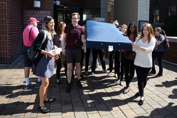 Mattress Performance (Carry That Weight) by performance artist Emma Sulkowicz, Columbia University, 2014–1015. The image shows a collective carry, Carry That Weight Together.